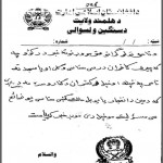 Taliban night letter propaganda leaflet: "Attention to all dear brothers: If the infidels come to your villages or to your mosques, please stop your youngsters from working for them and don’t let them walk with the infidels. If anybody in your family is killed by a mine or anything else then you will be the one responsible, not us."